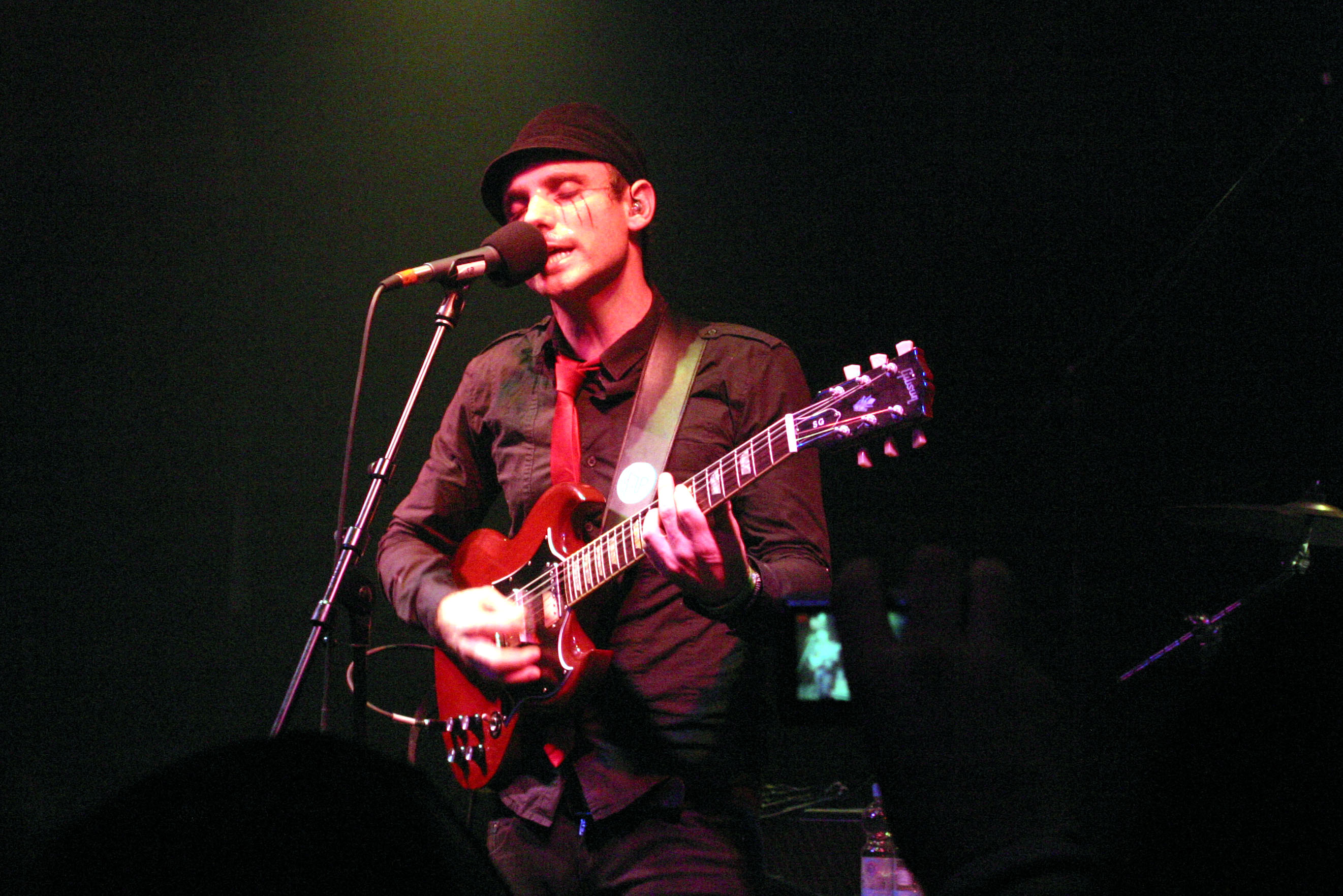 Kahn Morbee of the Parlotones at a concert in Cologne (Germany), 2010-10-26